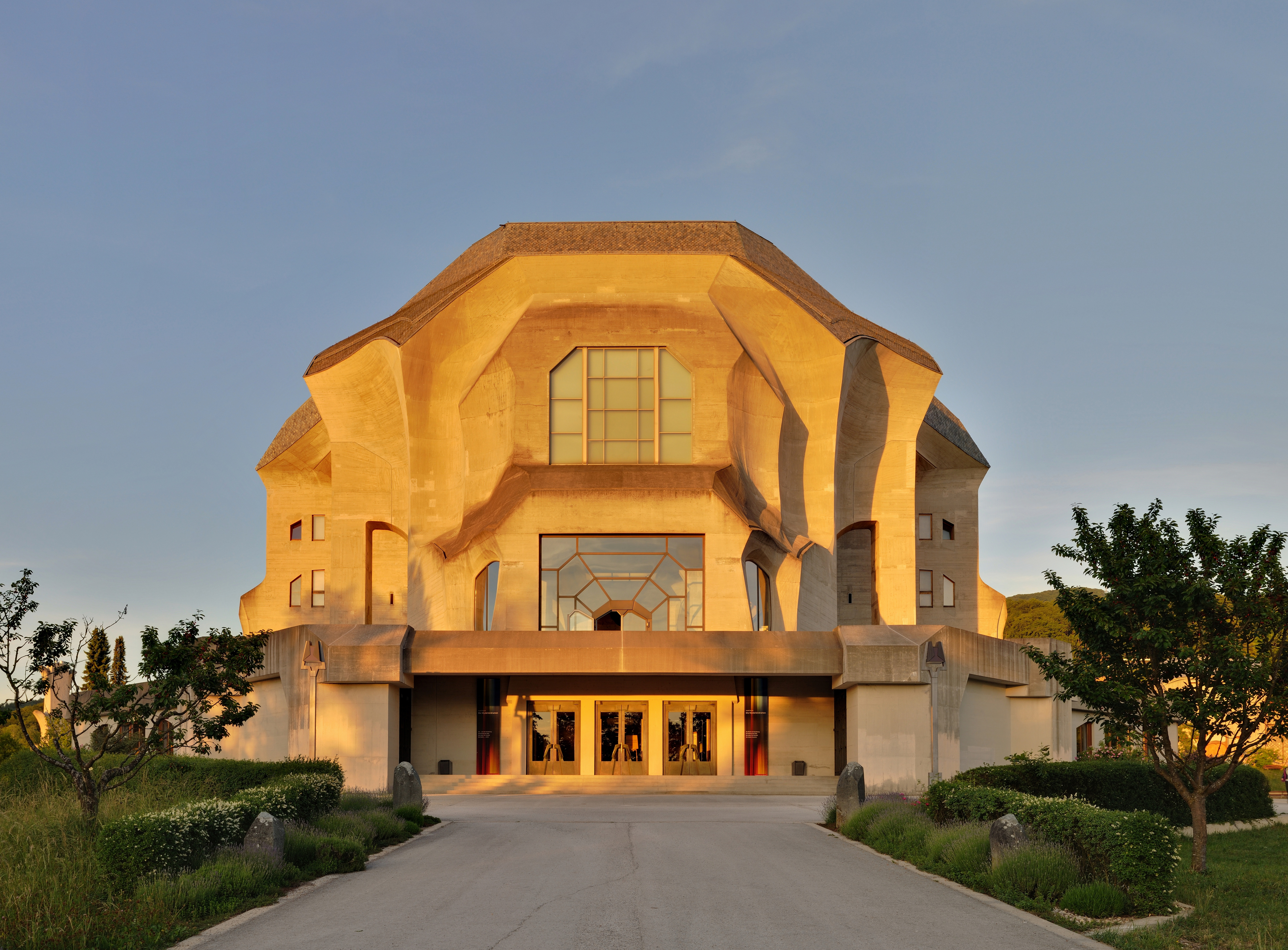 Dornach, Switzerland: Goetheanum from West